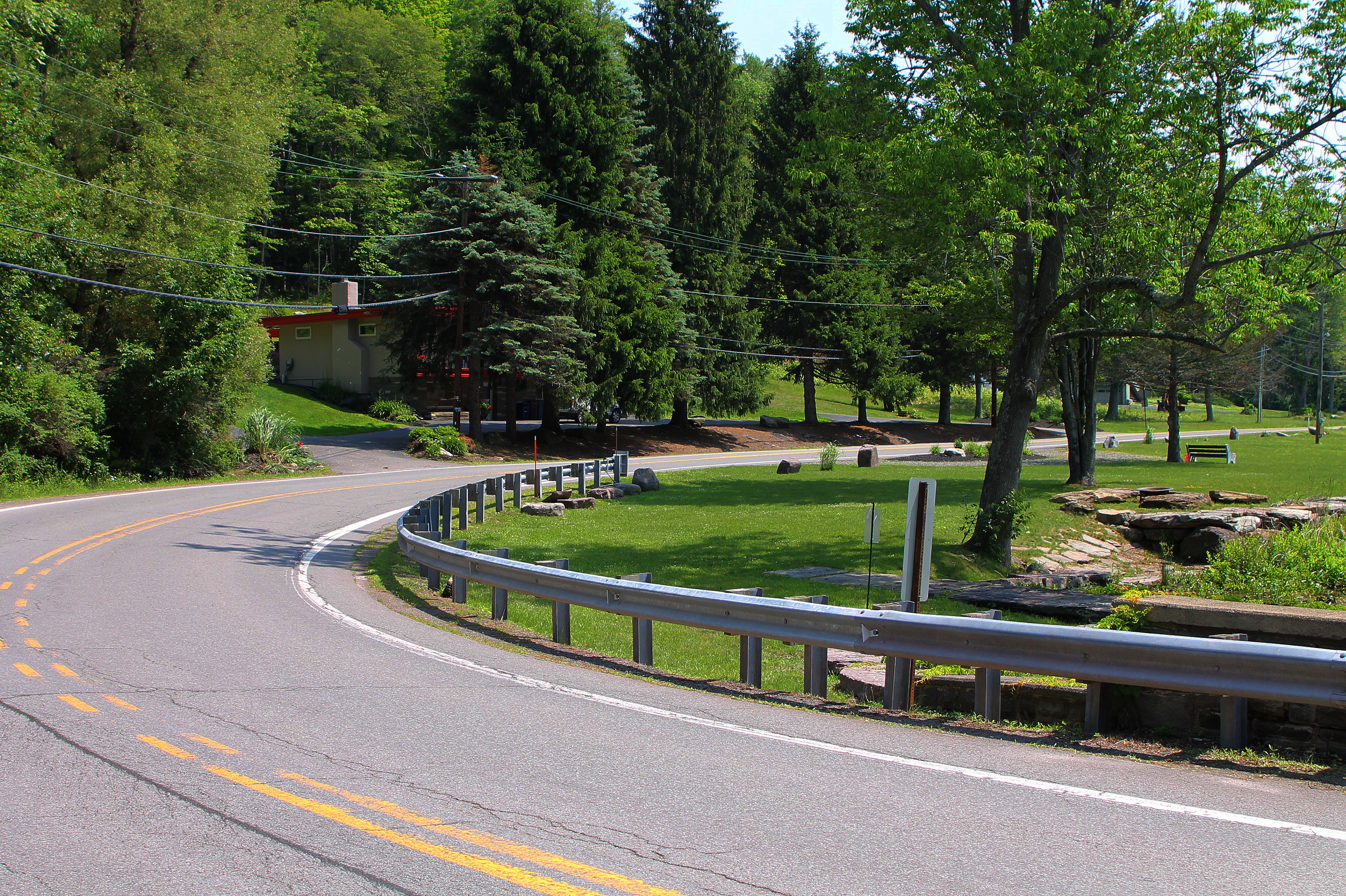 Pennsylvania Route 415 going around a bend near Harveys Lake in southwestern Harveys Lake, Luzerne County